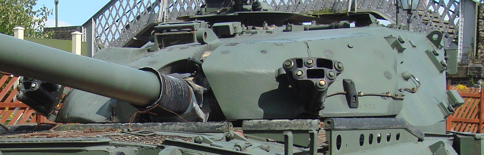 Turret of Chieftain Tank number 06 FA 10 at the Buckinghamshire Railway Centre Built:1970 Number:06 FA 10 Type:MBT Chieftain Builder:ROF Leeds